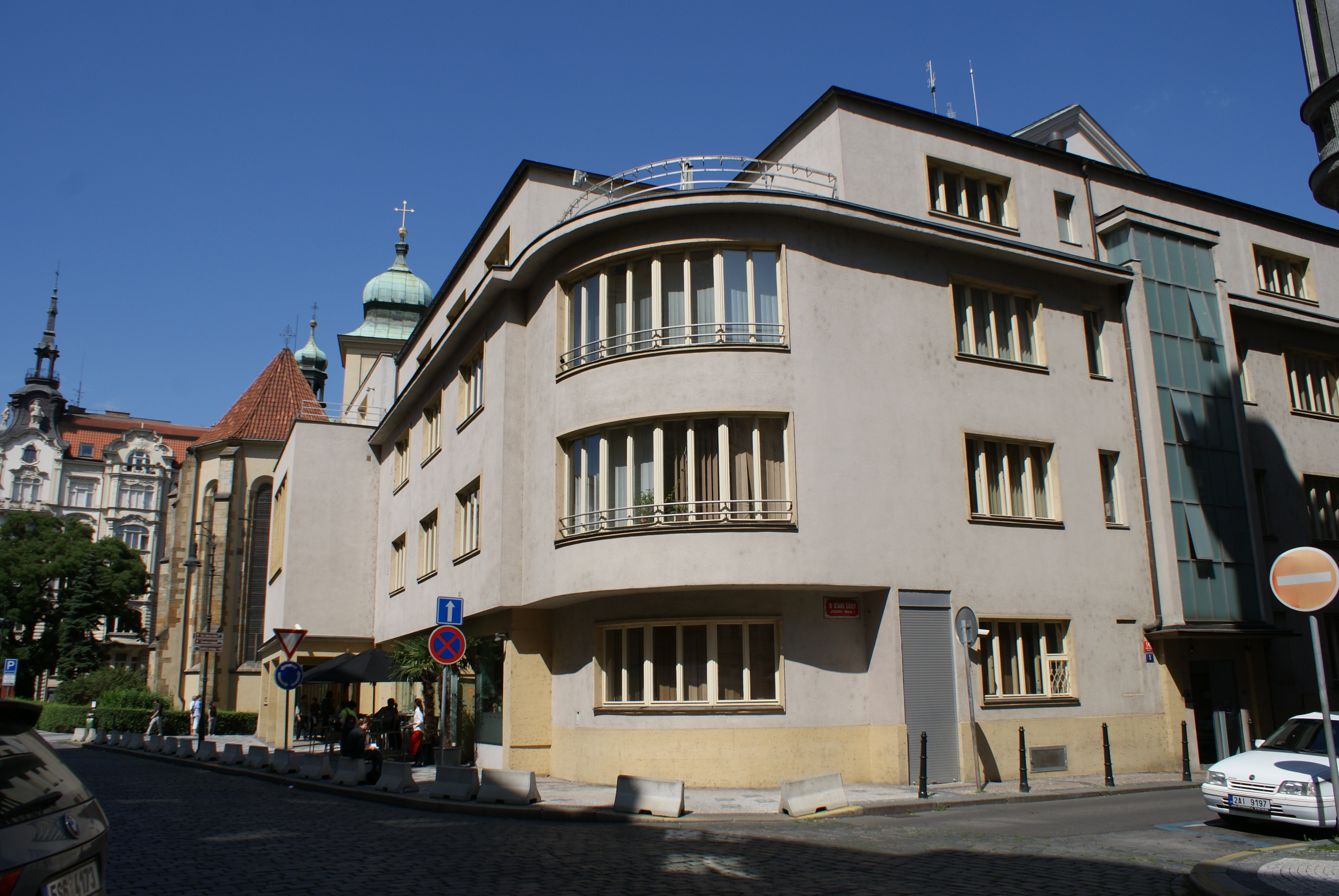 Jewish museum in Prague, Czech Republic.